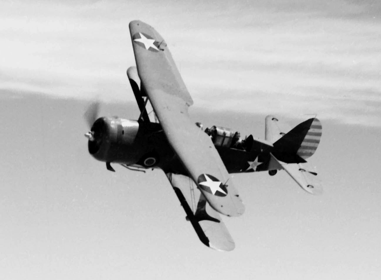 A U.S. Marine Corps Curtiss SBC-4 Helldiver in flight in early 1942.